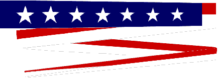 a commissioning pennant for the United States Navy.